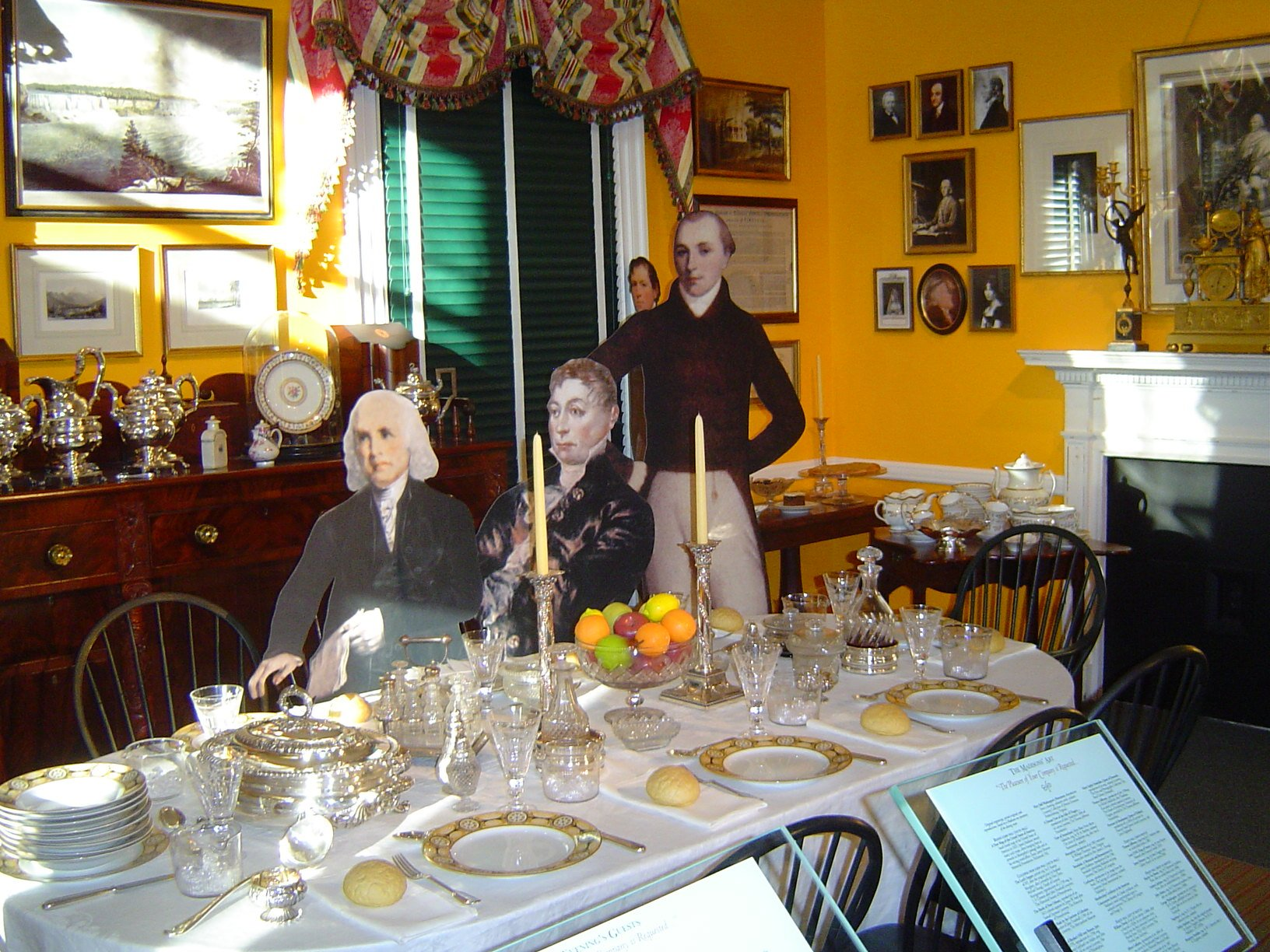 Montpelier (home of James Madison)